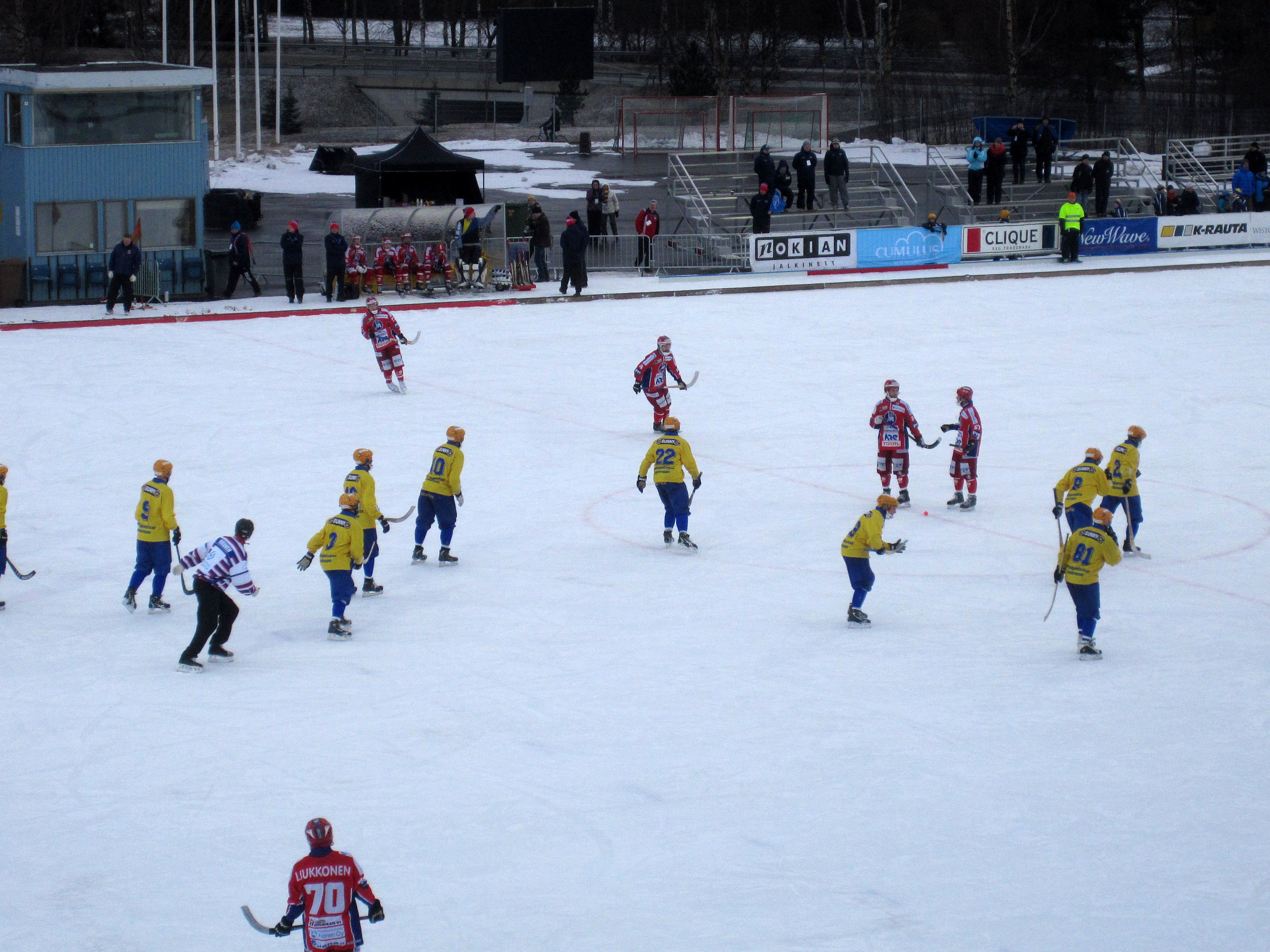 The 2014 Bandyliiga Final was played at the Raksila artificial ice rink in Oulu. The final was played between Oulun Luistinseura (OLS) and Jyväskylän Seudun Palloseura(JPS), OLS got the championship with the result 4-2.